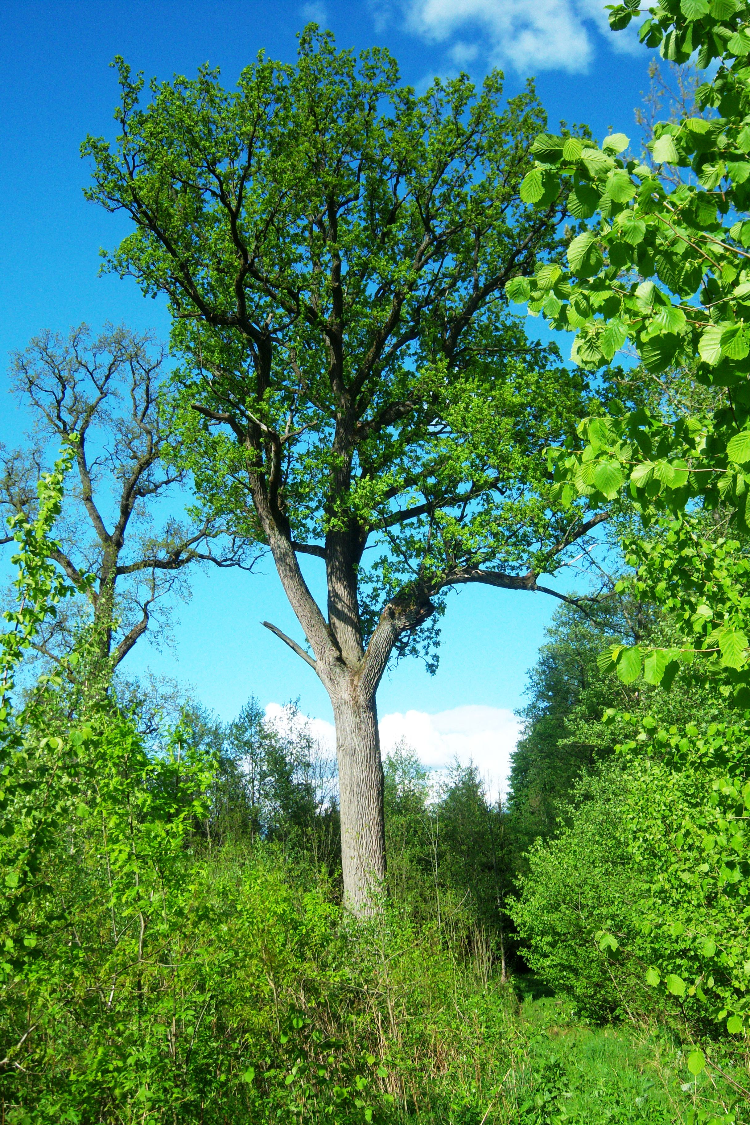 Oak in Karčiupis forest, Lithuania